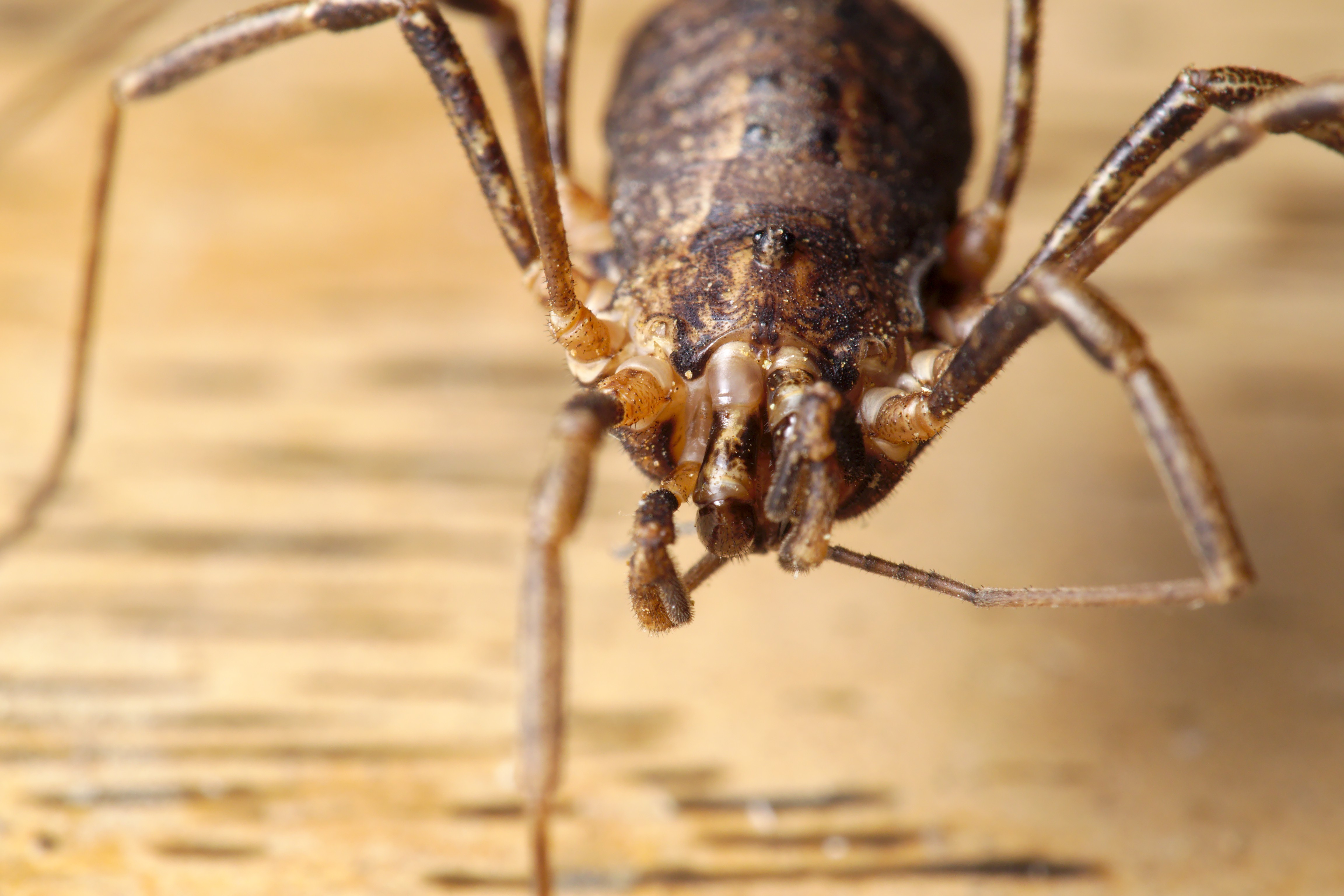 Protolophus sp. harvestman exhibiting leg-cleaning behavior near Lake Isabella, California